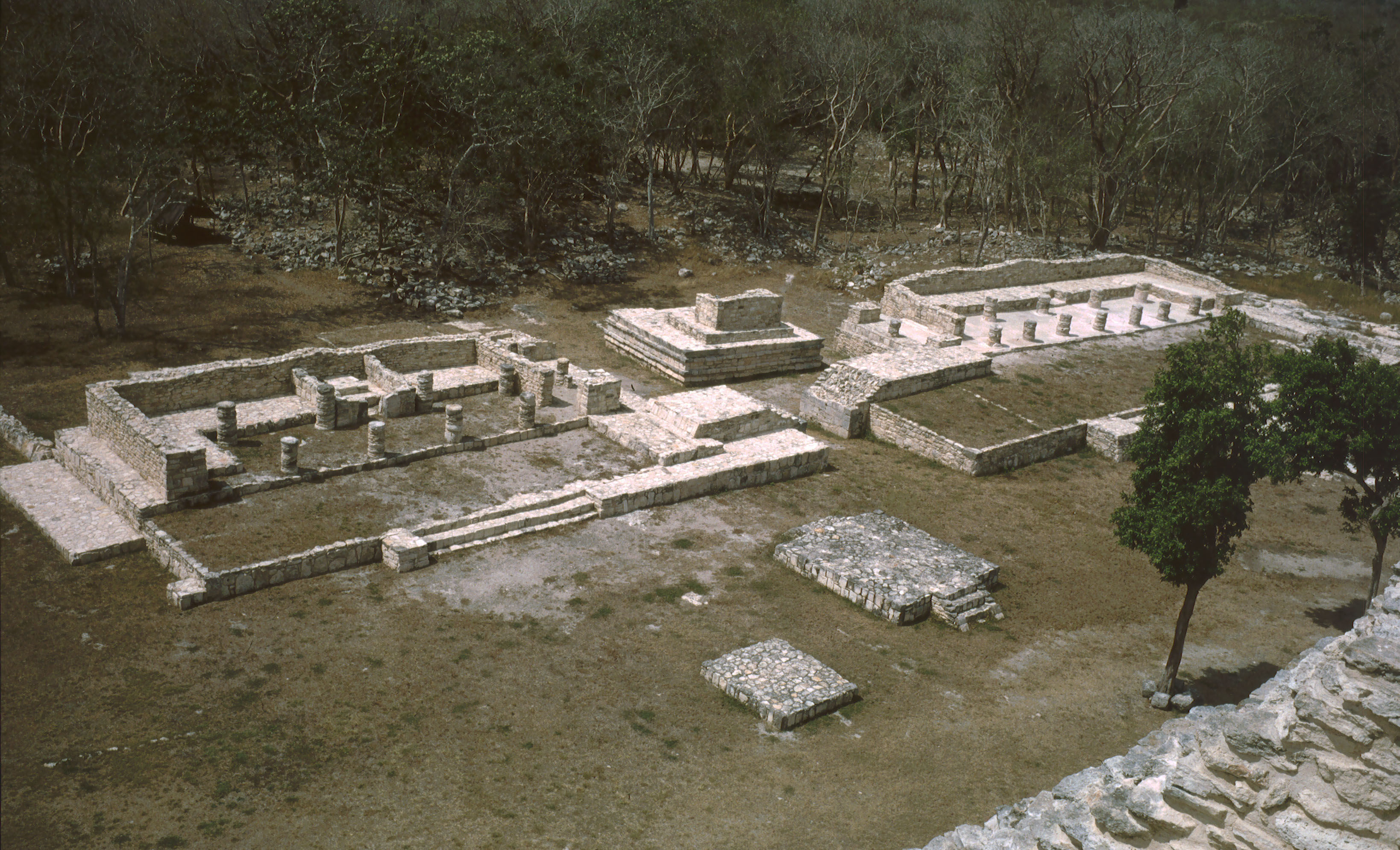 Mayapan, Yucatan, Mexico: Columned hall, seen from the Kukulkan pyramid.